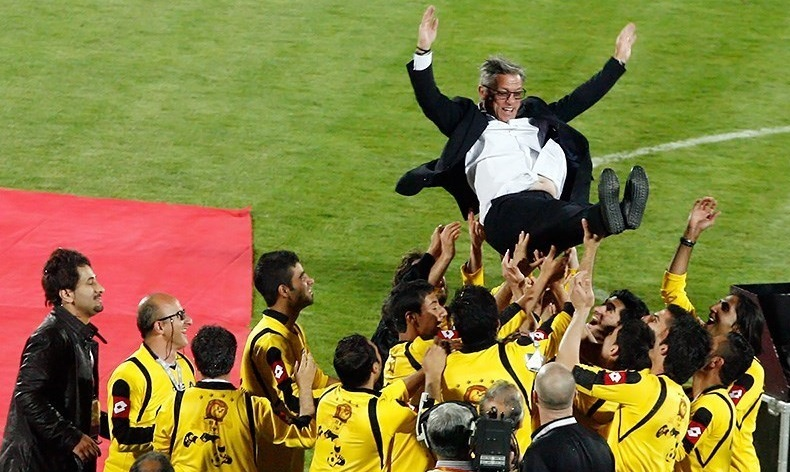 Persepolis Sepahan - 2013 Hazfi Cup Final